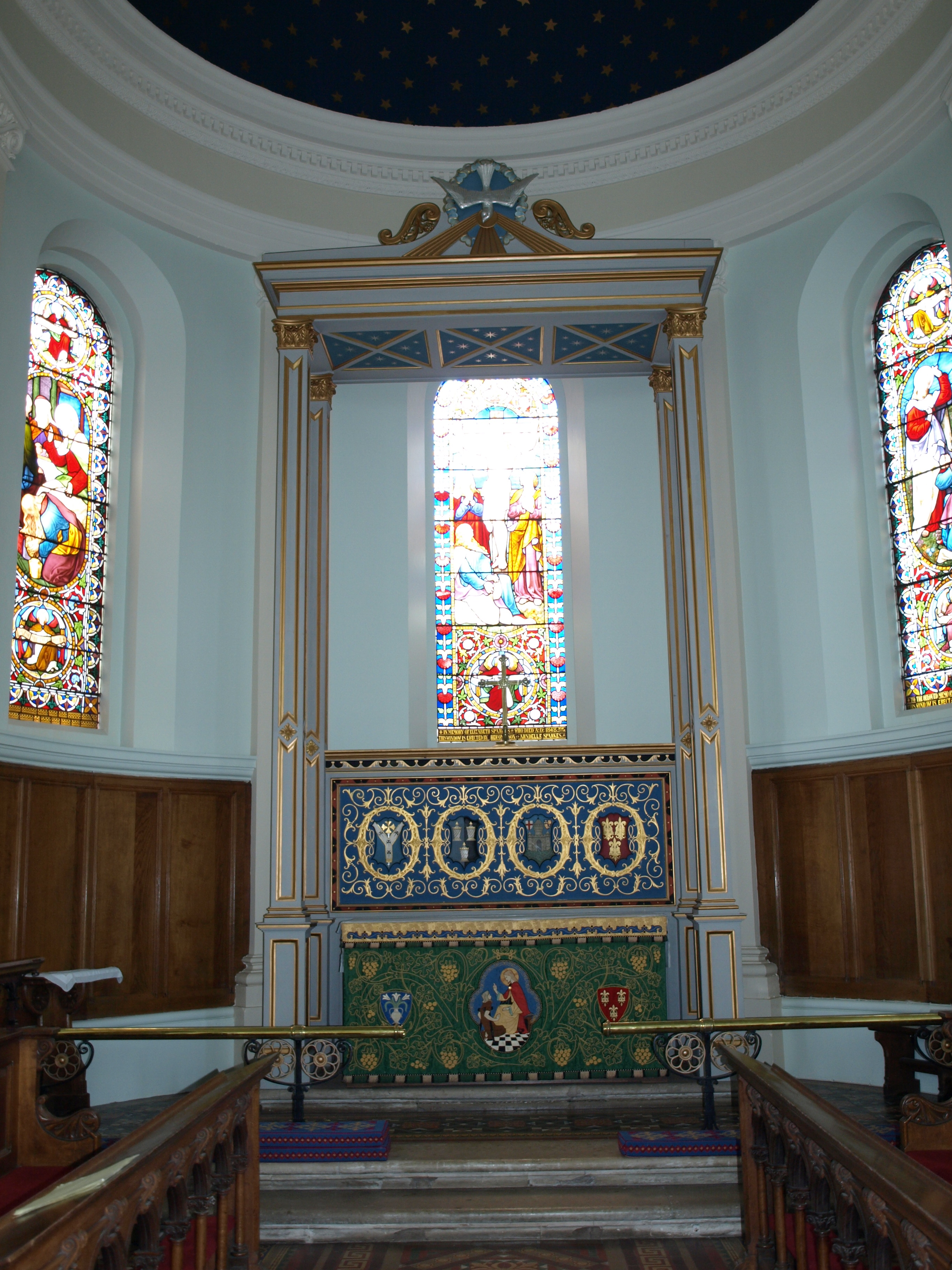 Church of St. Mary Magdalene, Bridgnorth